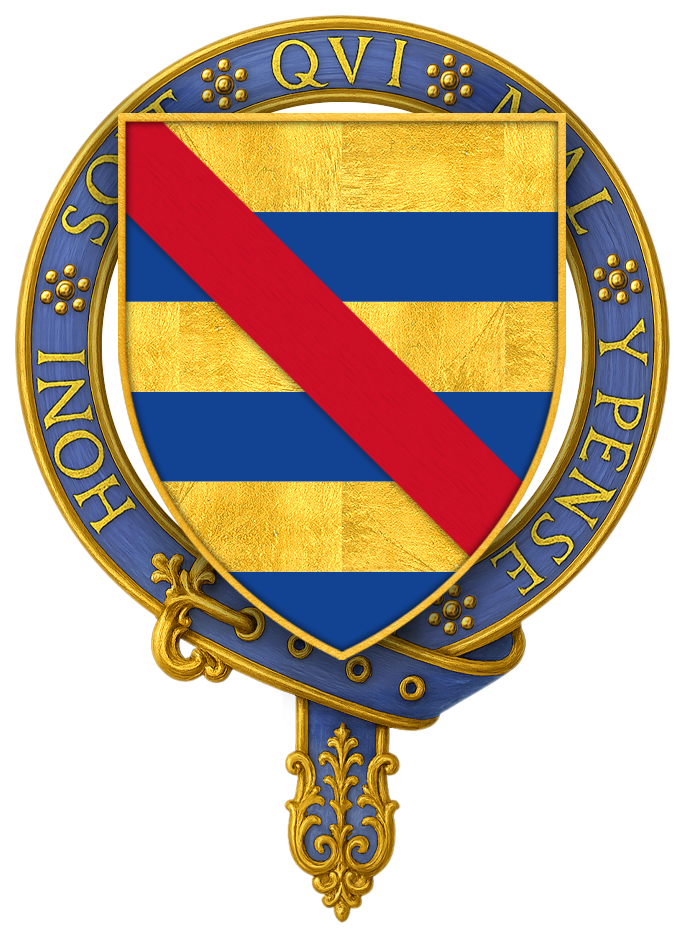 Coat of Arms of Sir Richard Pembridge, KG “Sir Richard Pembrugge… Arms: Barry of six Or and Azure, a bend Gules.” BELTZ, George Frederick, Memorials of the Order of the Garter from Its Foundation to the Present Time, London: William Pickering, 1841.